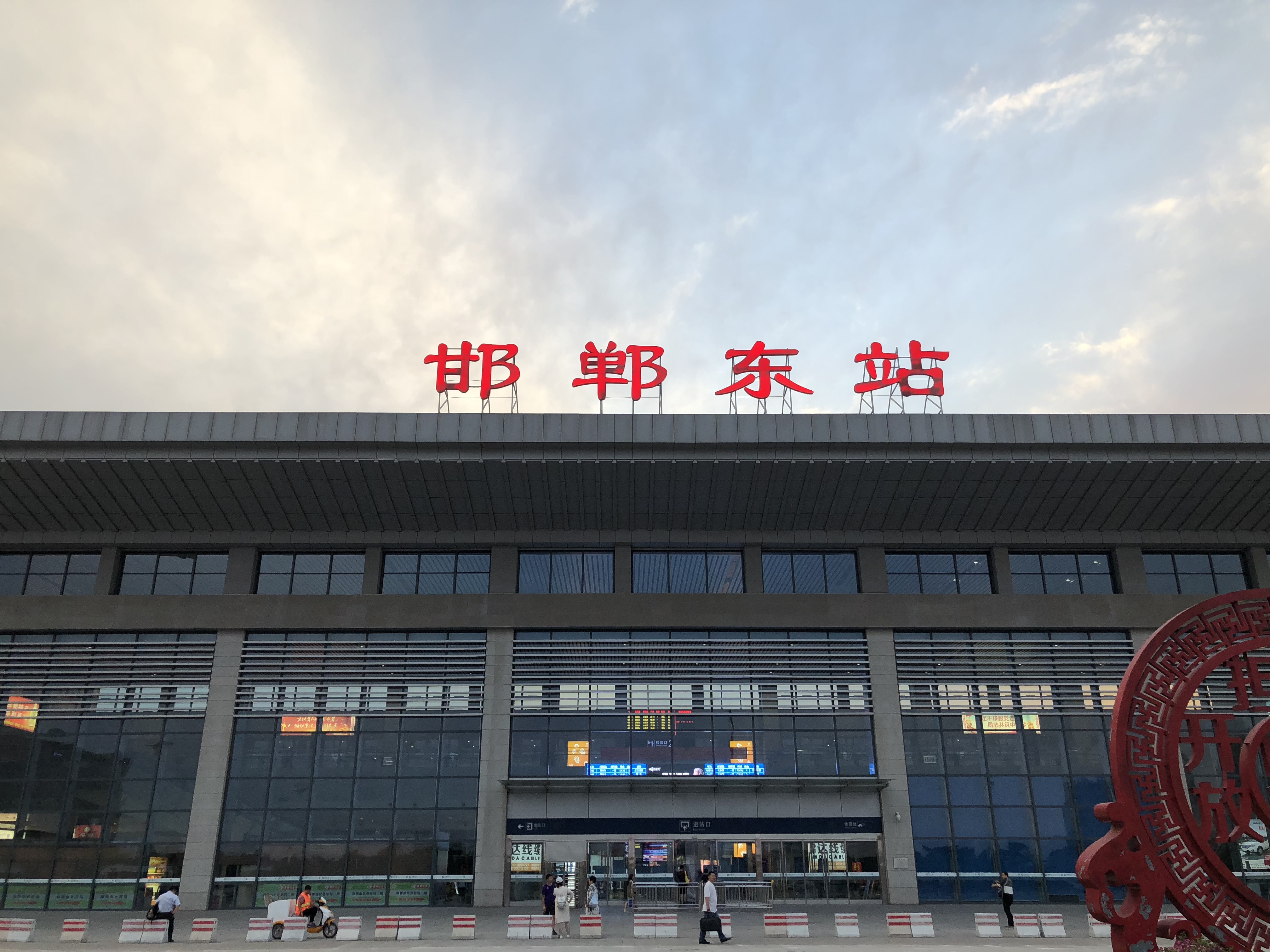 Handandong Railway Station